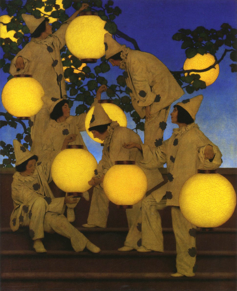 published in Collier's magazine on 10 December 1910